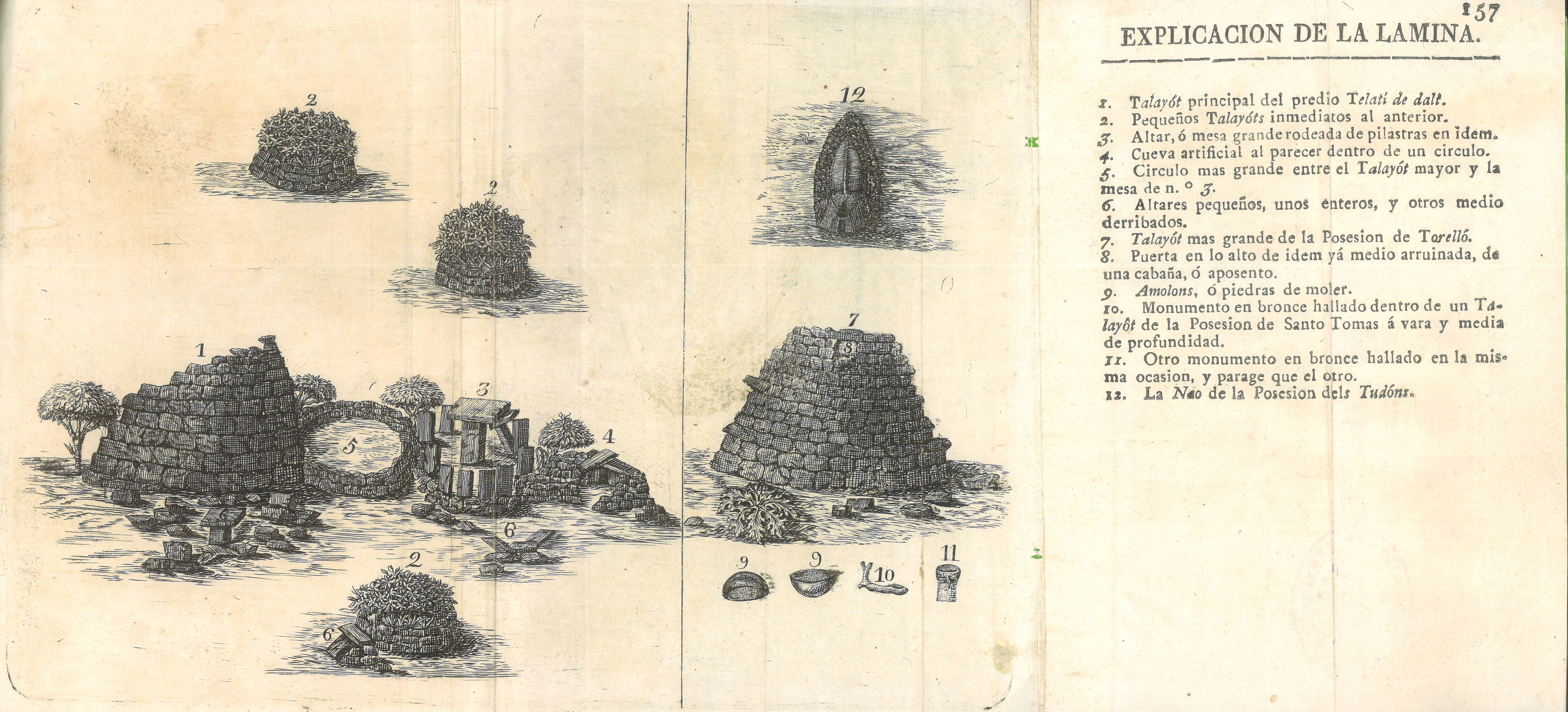 One of the plates included in Celtic Antiques on the Island of Menorca by Joan Ramis i Ramis. The plate lists the types of prehistoric monuments on the island, including names and drawings of each of them.